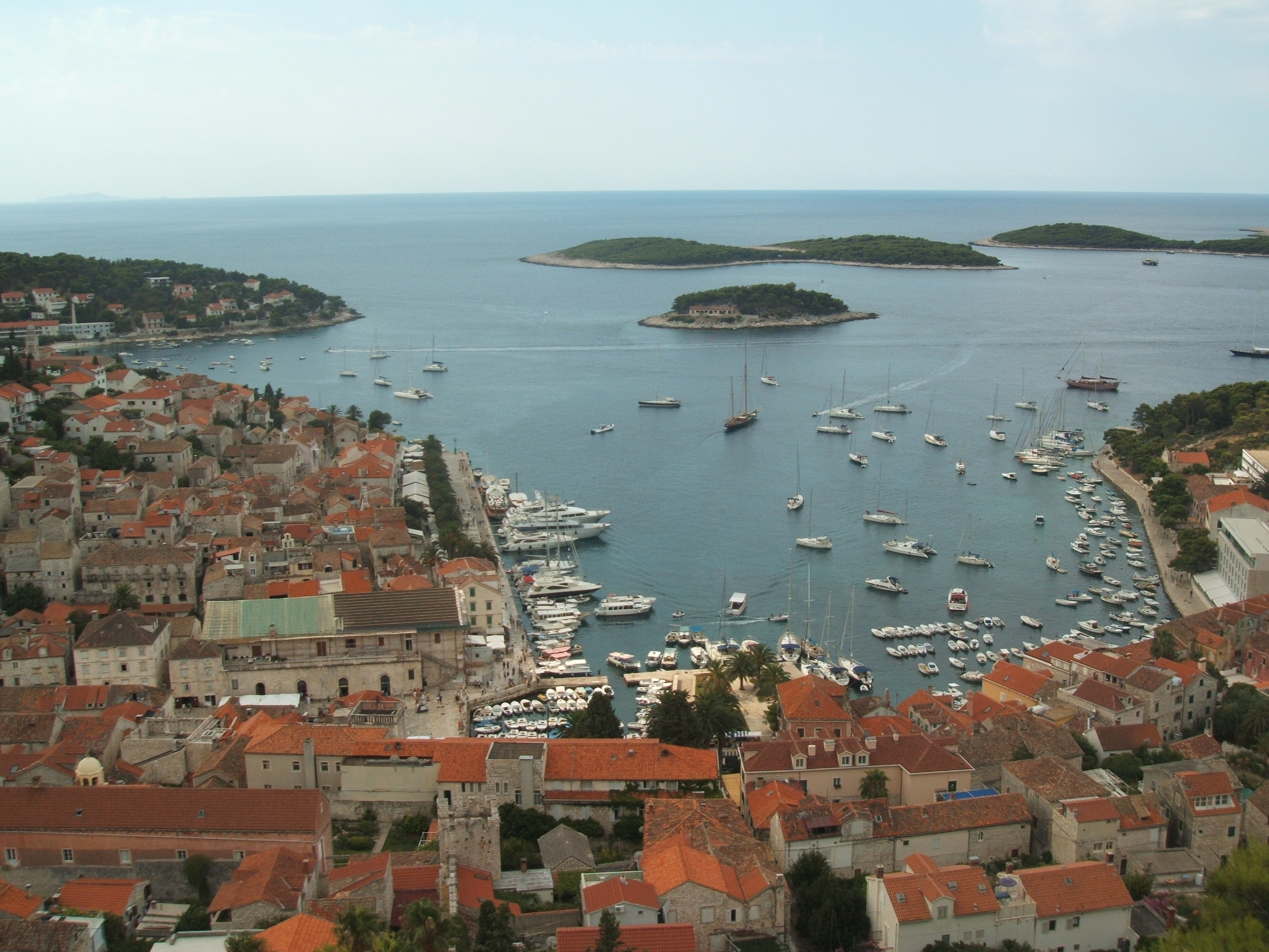 Hvar seen from fortress Fortica